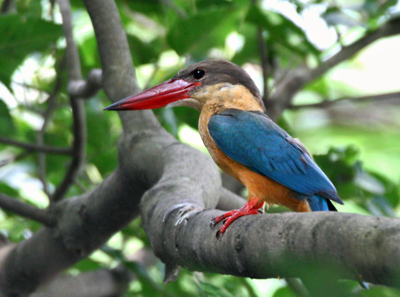 Stork-billed Kingfisher Pelargopsis capensis in Kolkata, West Bengal, India.